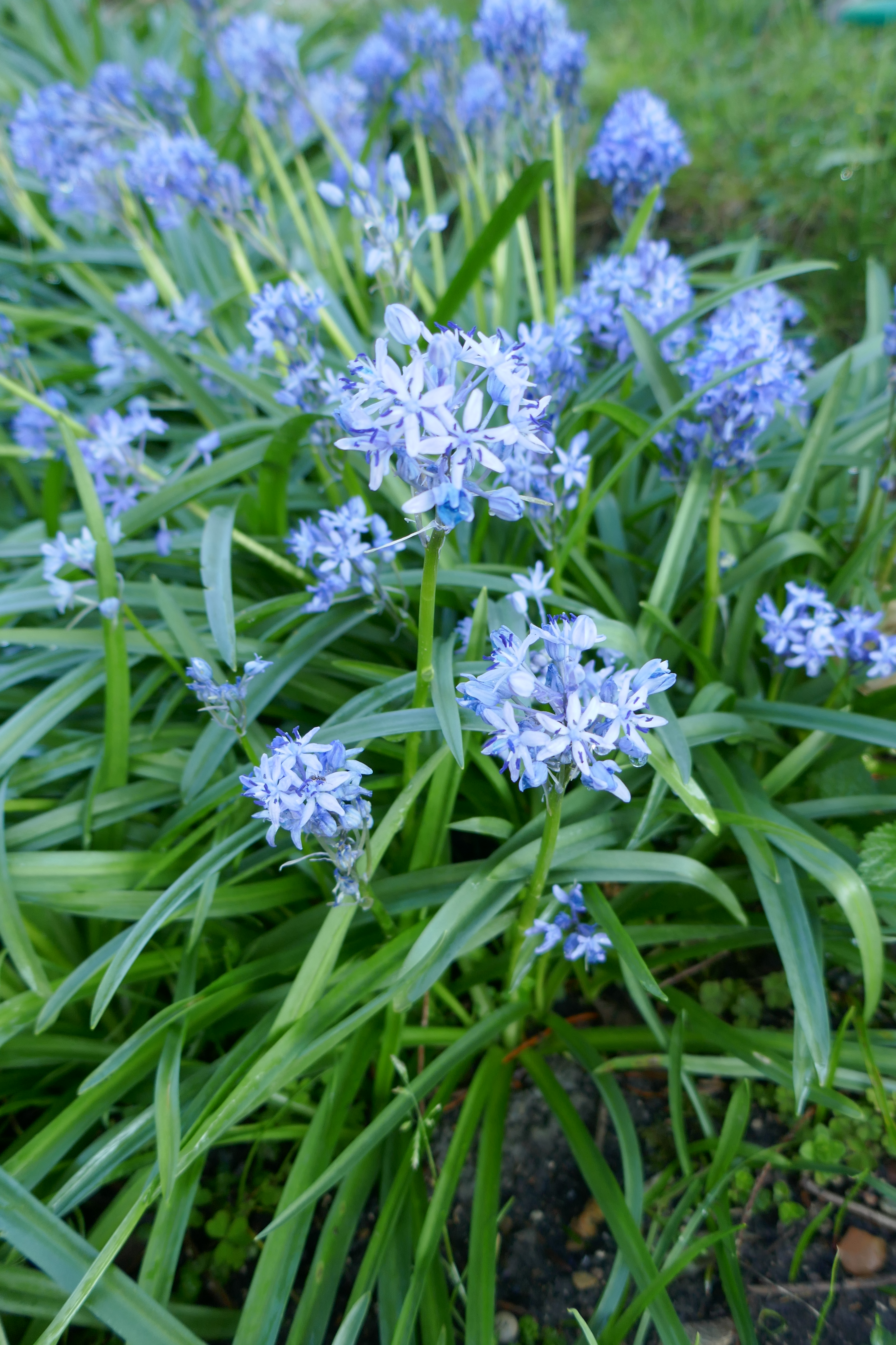 Hyacinthoides italica. Cultivated in Jardin des Plantes de Paris. Muséum national d'Histoire naturelle. 75005 Paris, France.